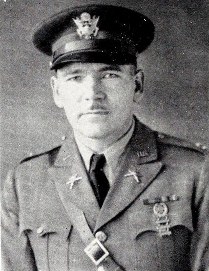 A. R. MacKechnie